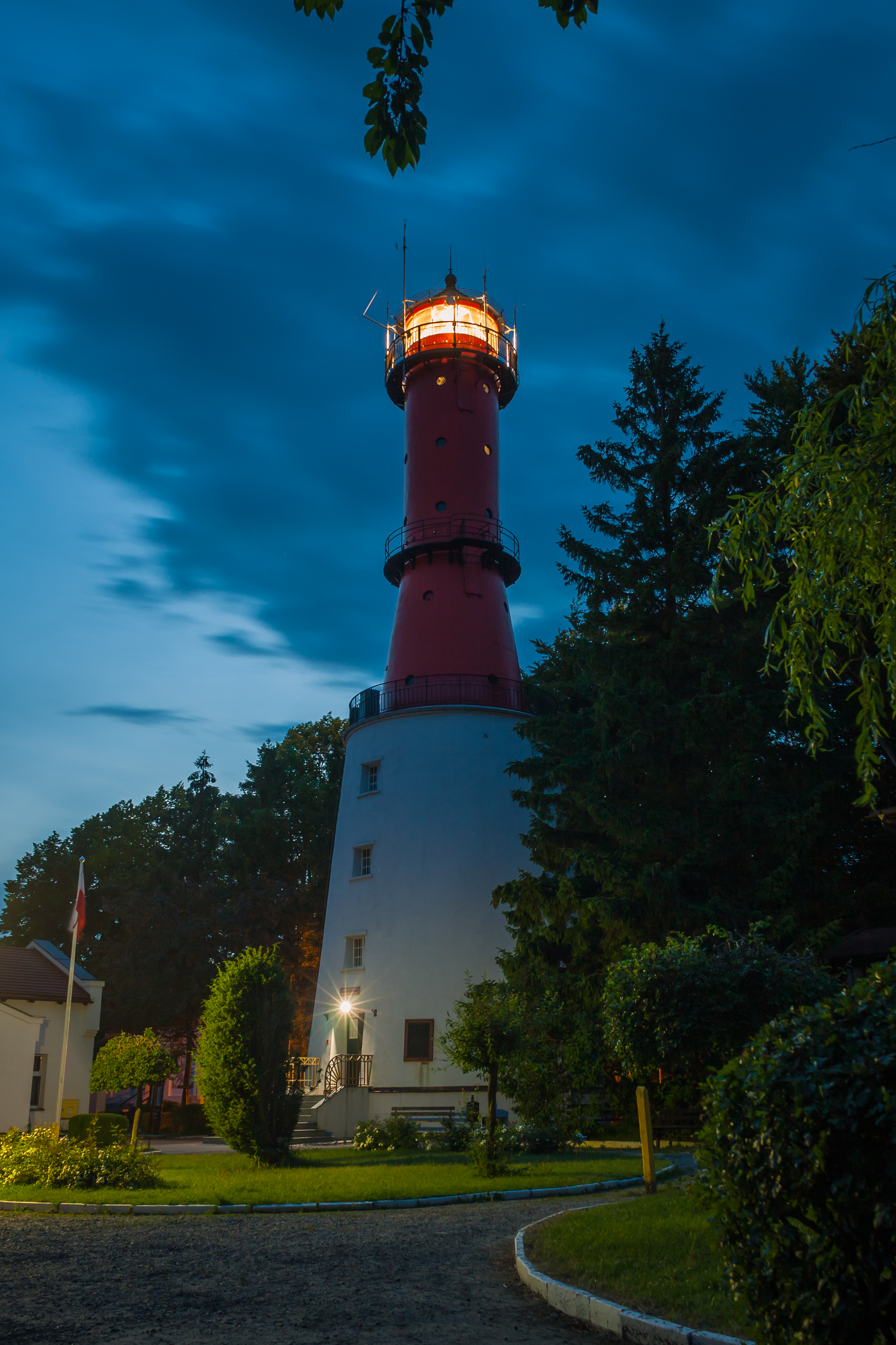 Photo taken during a trip on the Polish coast in July 2018. An expedition co-financed by the Wikimedia Poland Association and the Society of the Friends of the National Maritime Museum in Gdańsk.